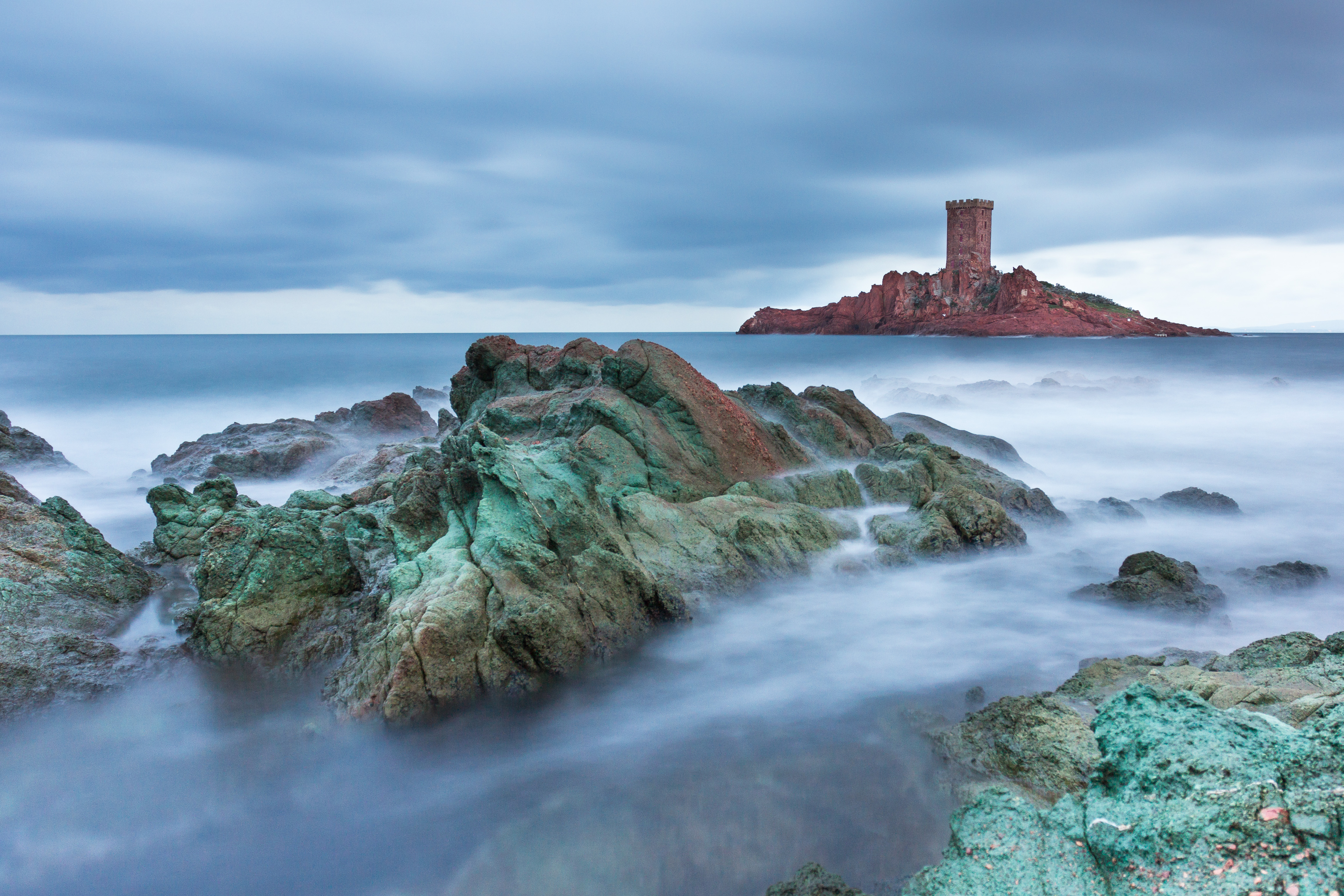 The île d'Or is a private island located east of Saint-Raphaël, facing the beach of the cape Dramont. This rocky island, composed of red rocks (rhyolite), is surmounted by a tower with a Saracen look